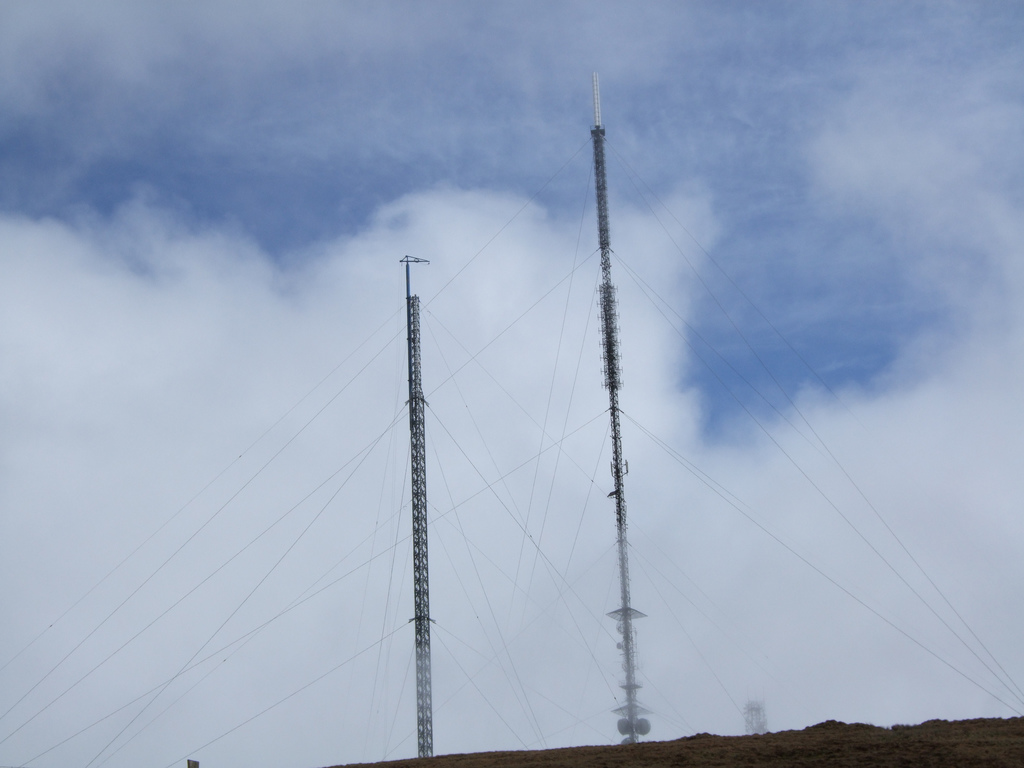 New (left) and old (right) TV transmitters at Mullaghanish. New TV transmitter being constructed as part of the roll out of Digital Terrestrial Television in Ireland.